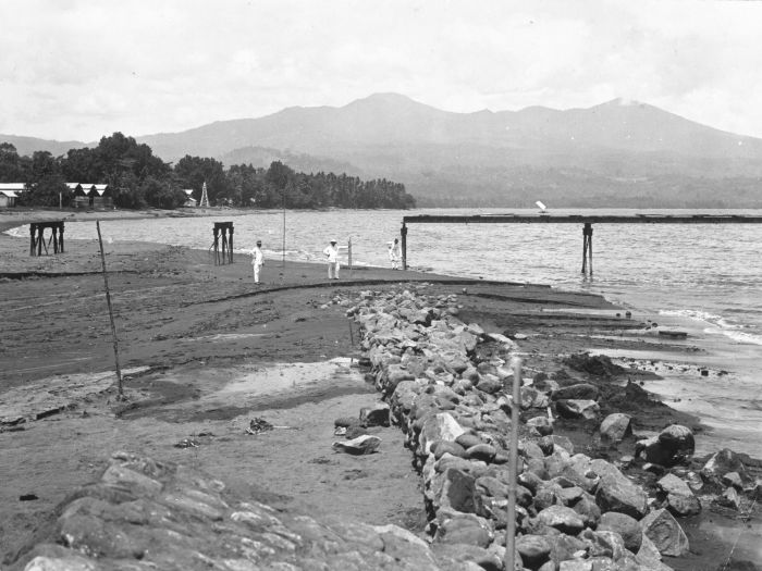 Pier at Manado Bay under construction, with the Lokon and Empung volcanos on the background